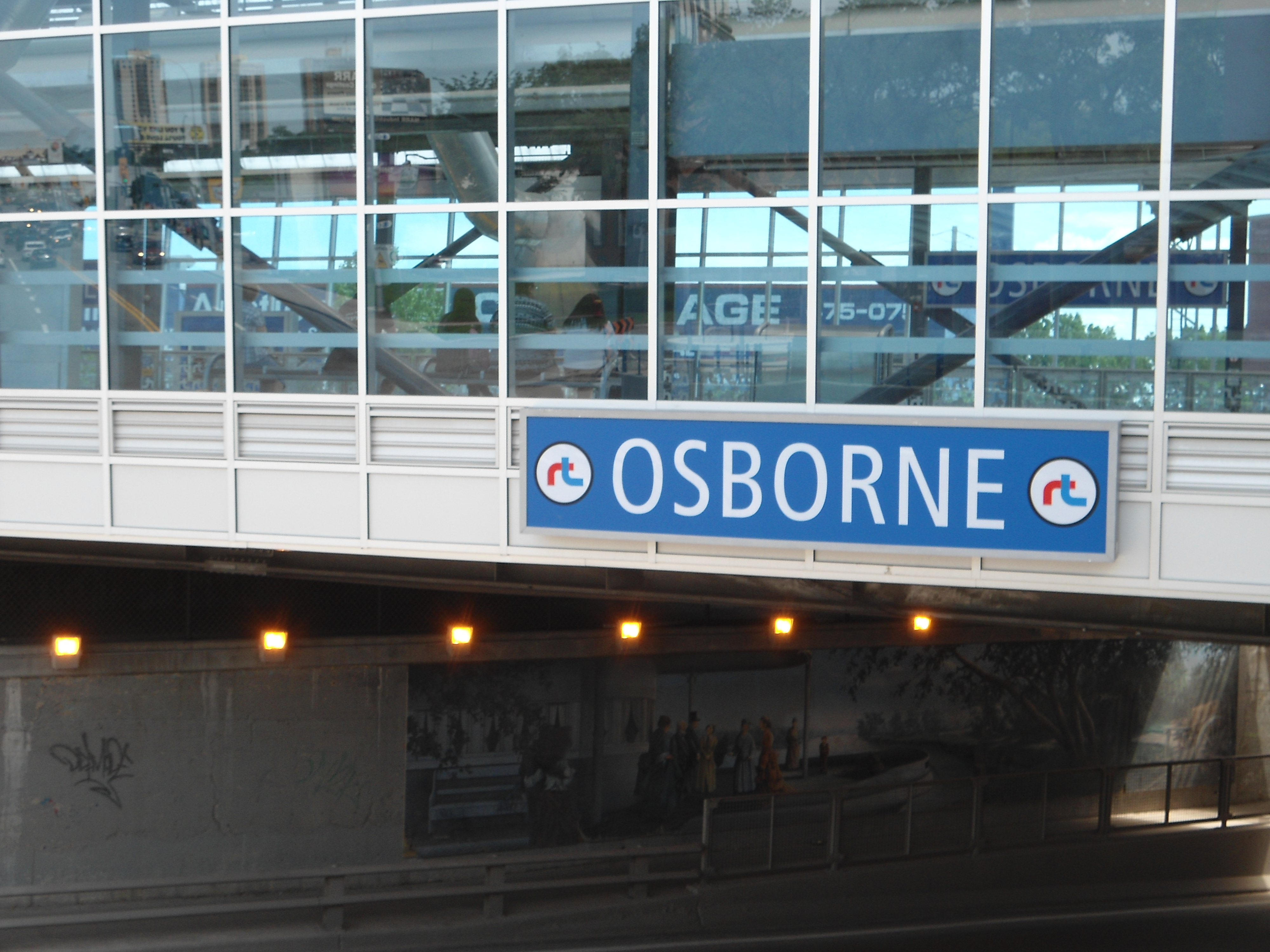 Commuters can be seen through the class, and a mural can be seen on the side of an underpass where traffic flows beneath the Osborne Station terminal on Winnipeg's Rapid Transit system.